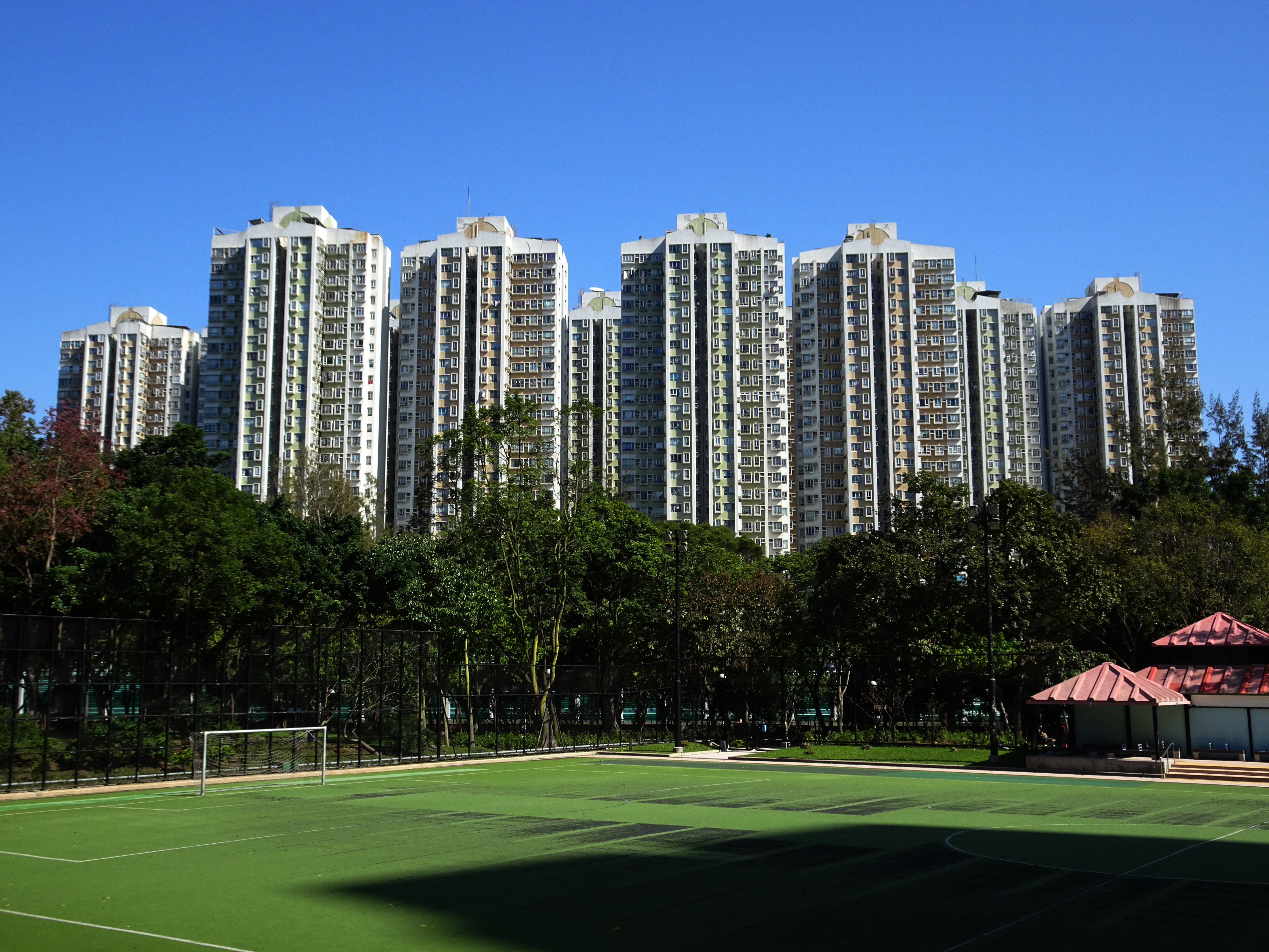 Fanling Centre in Fanling, Hong Kong.